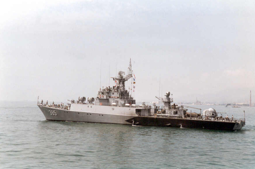 Indonesian corvette Teuku Umar, former DDR Grevesmühlen in Málaga.